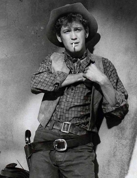 A promotional shot of Earl Holliman for the film Trooper Hook